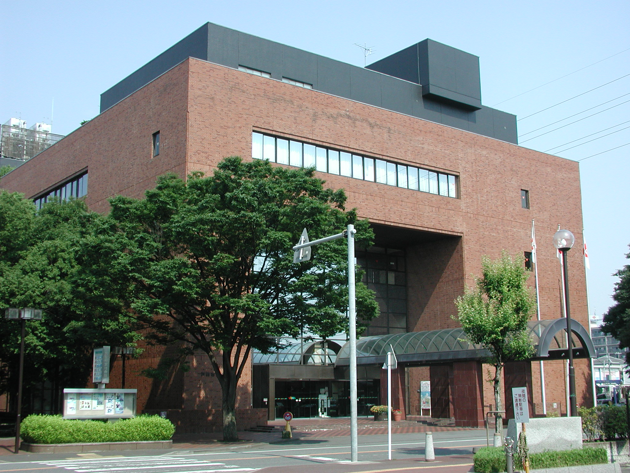 Toda Civic Cultural Hall